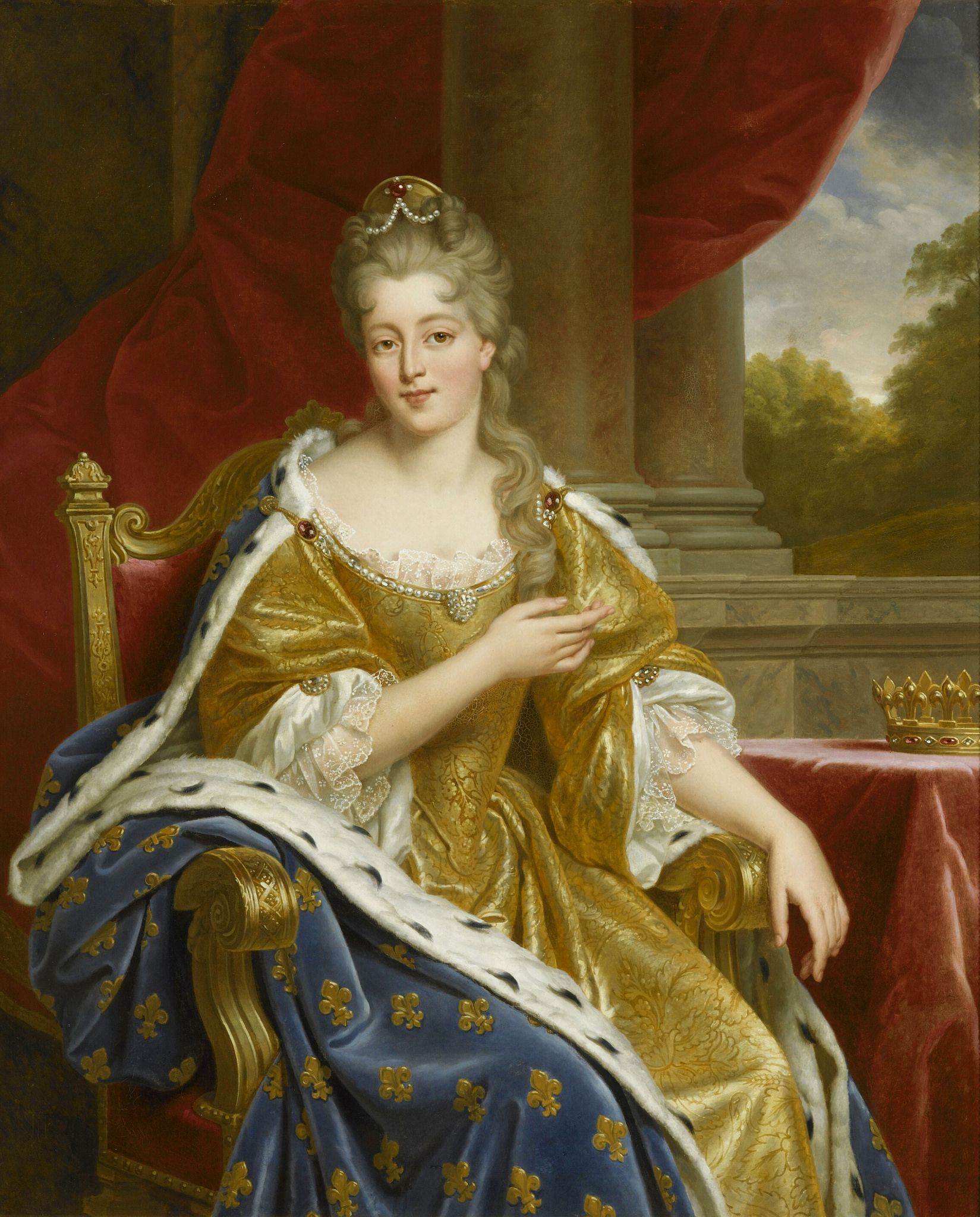 Posthumous portrait painted in the reign of Louis Philippe King of the French - her great great grandson